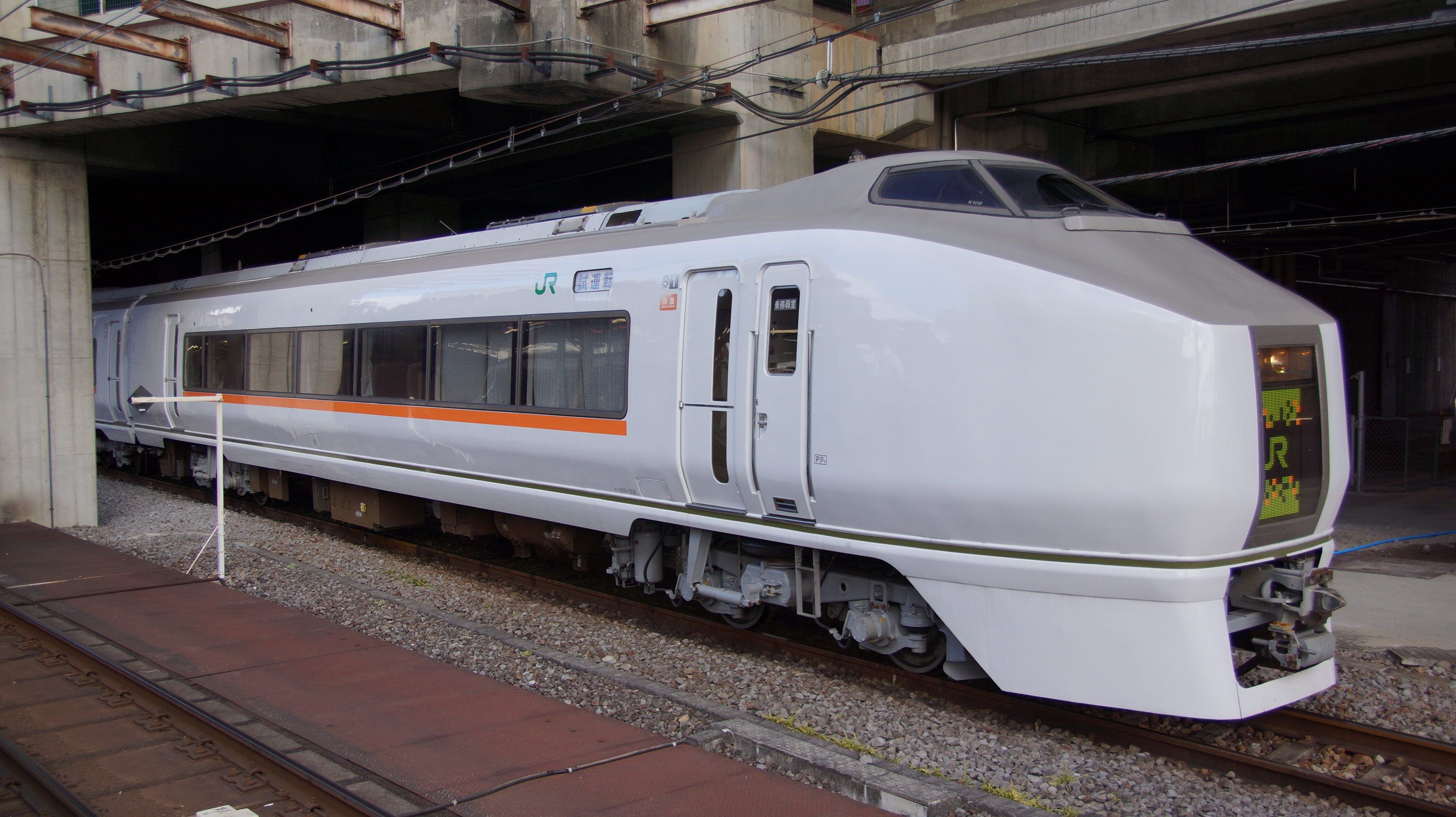 JR East 651-1000 series EMU set K109 at Takasaki Station while on a driver-training run